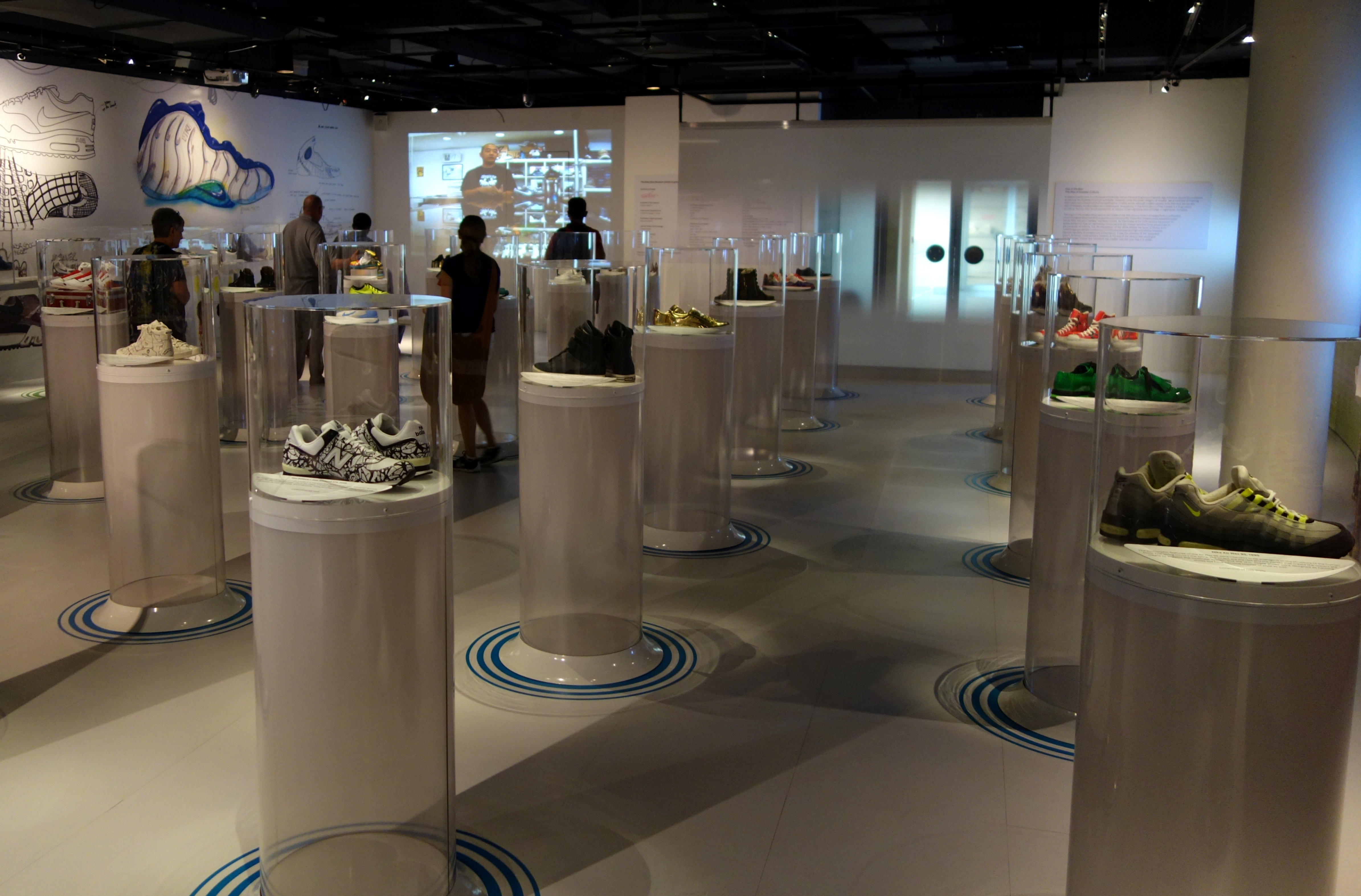 Interior view - Bata Shoe Museum, Toronto, Ontario, Canada.